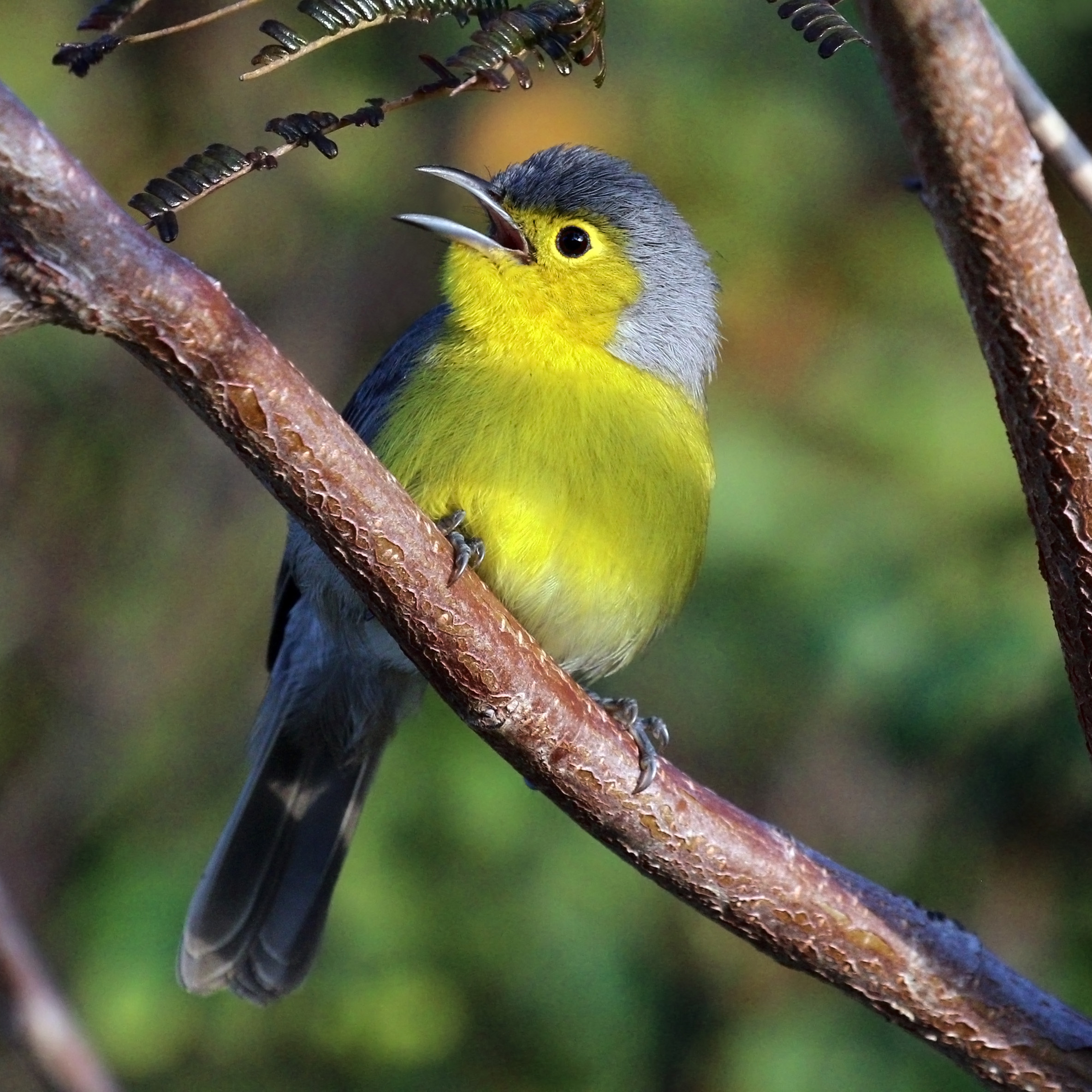 Oriente warbler (Teretistris fornsi), Cayo Romana (Cayo Coco), Cuba